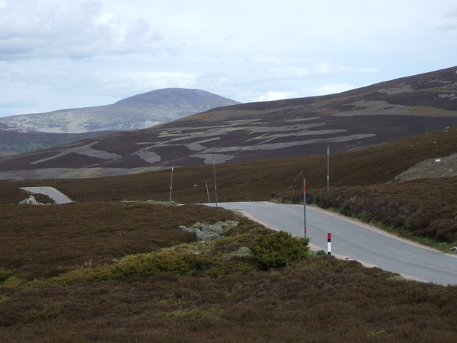 View NE from summit of B976 Along the Old Military Road towards Gairnshiel, with Morven in the distance.